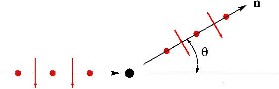 Thomson scattering with indicated polarization directions